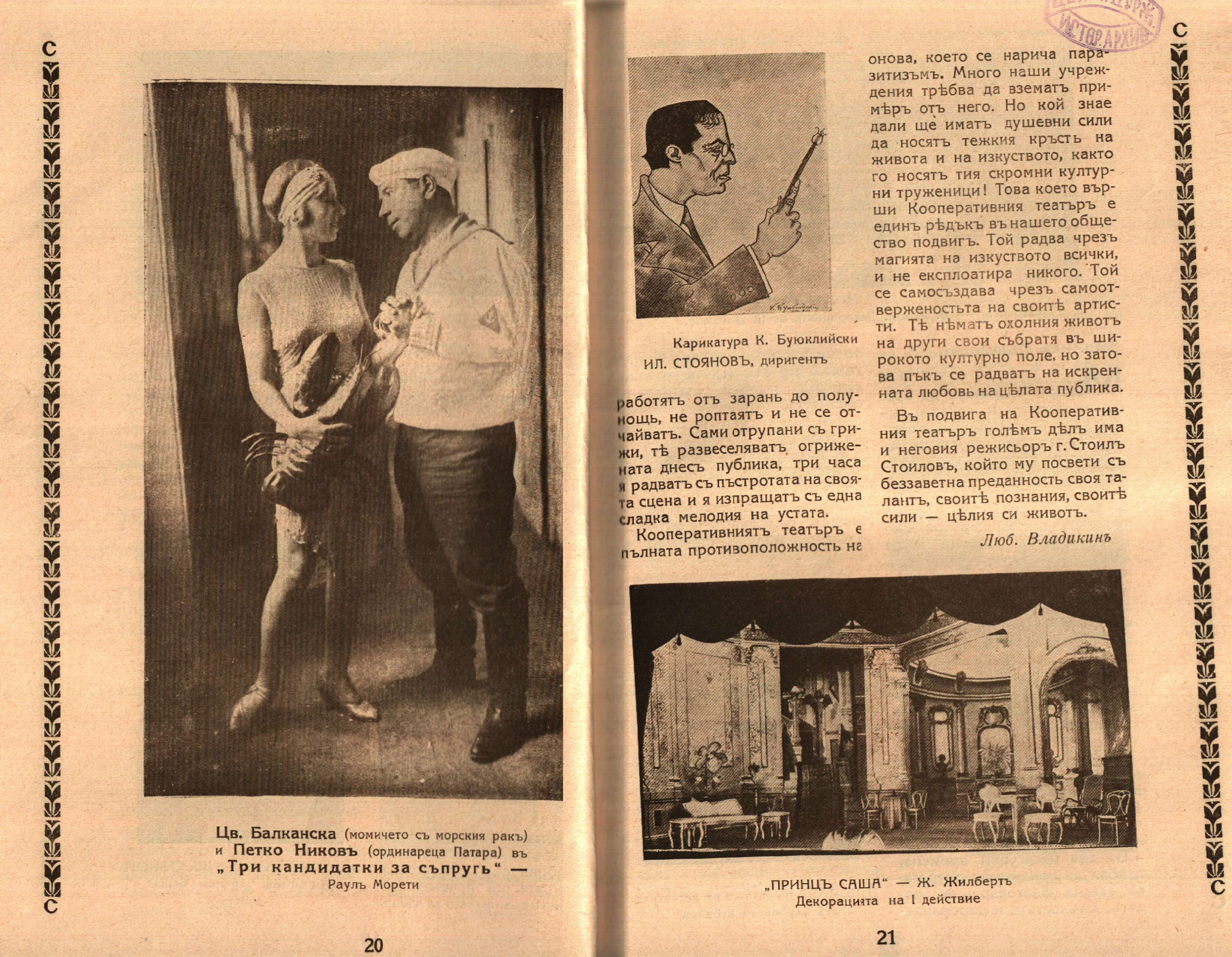 Stoil Stoilov